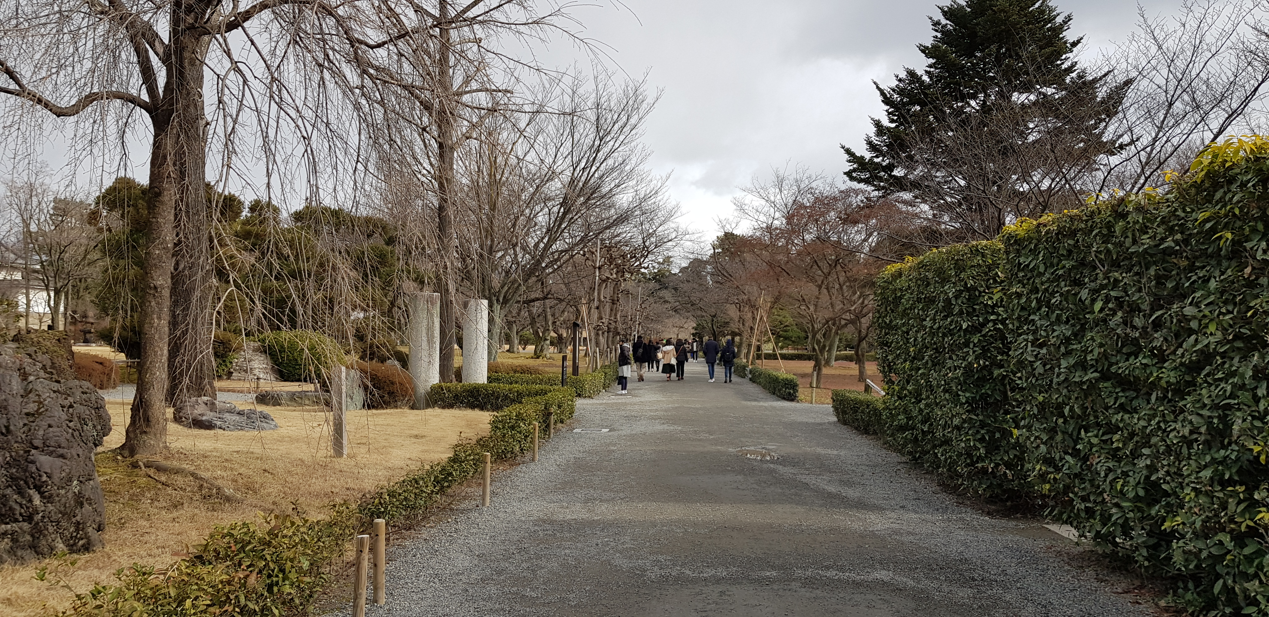 Walkway in Seiryu-en garden